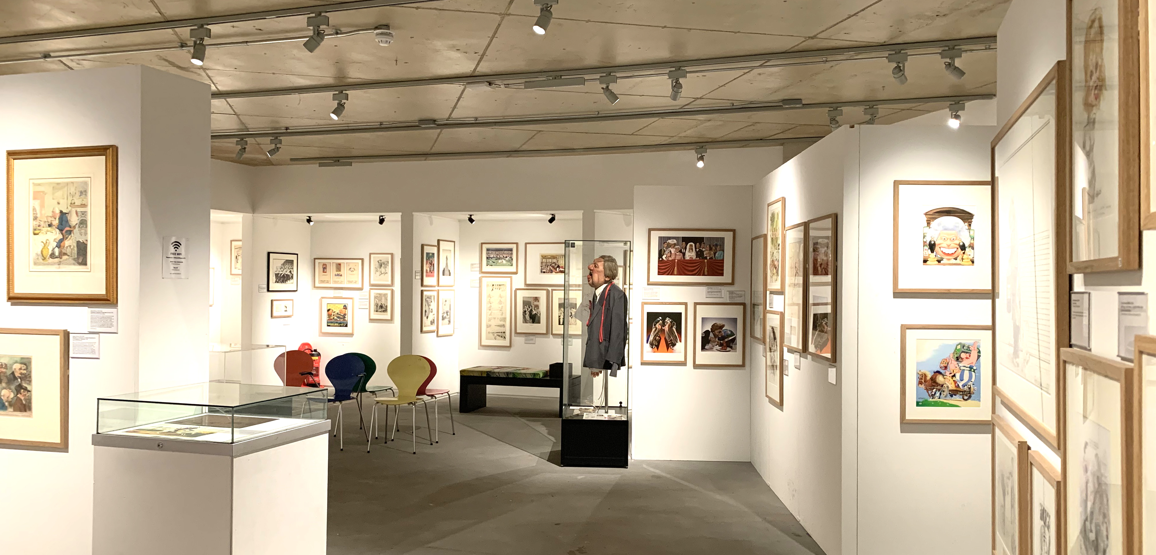 Cartoon Museum Interior, including "Spitting Image" puppet of Roy Hattersley MP